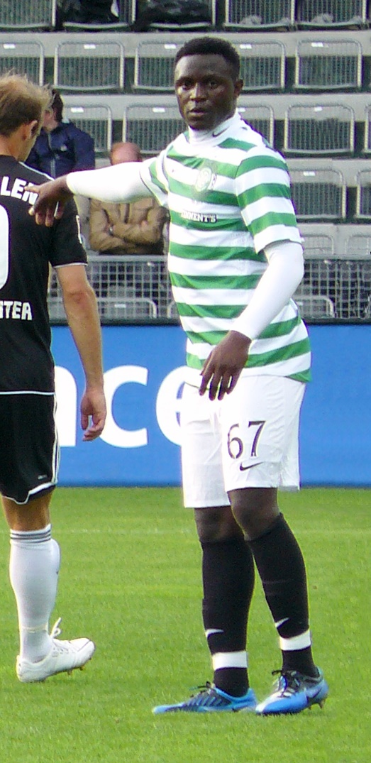 Victor Wanyama, Kenyan footballer